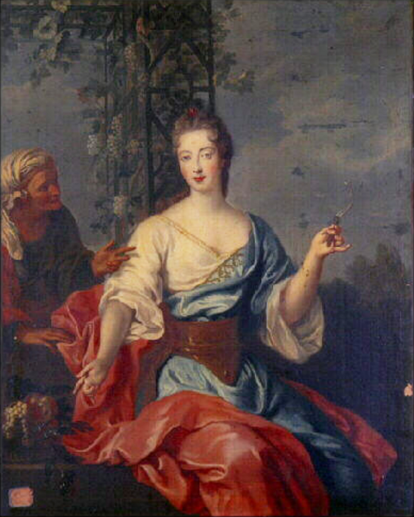 Princess Anne Charlotte of Lorraine